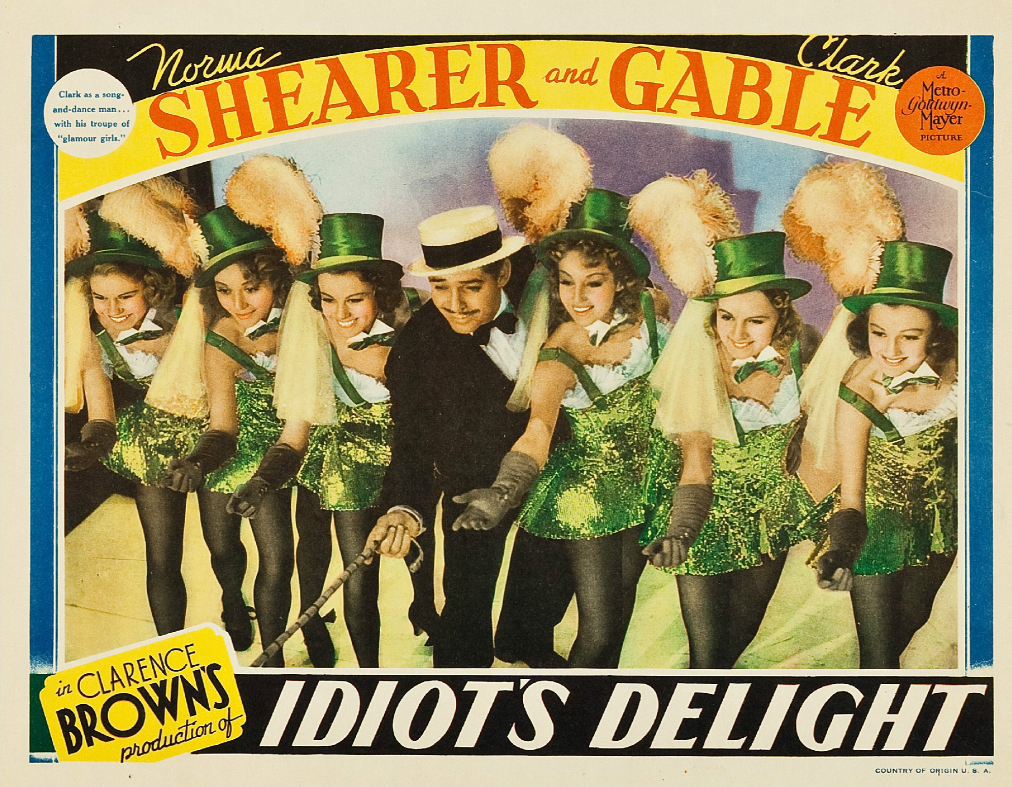 Lobby card for the 1939 film Idiot's Delight. Clark Gable in a deliberately corny performance of "Puttin' on the Ritz".